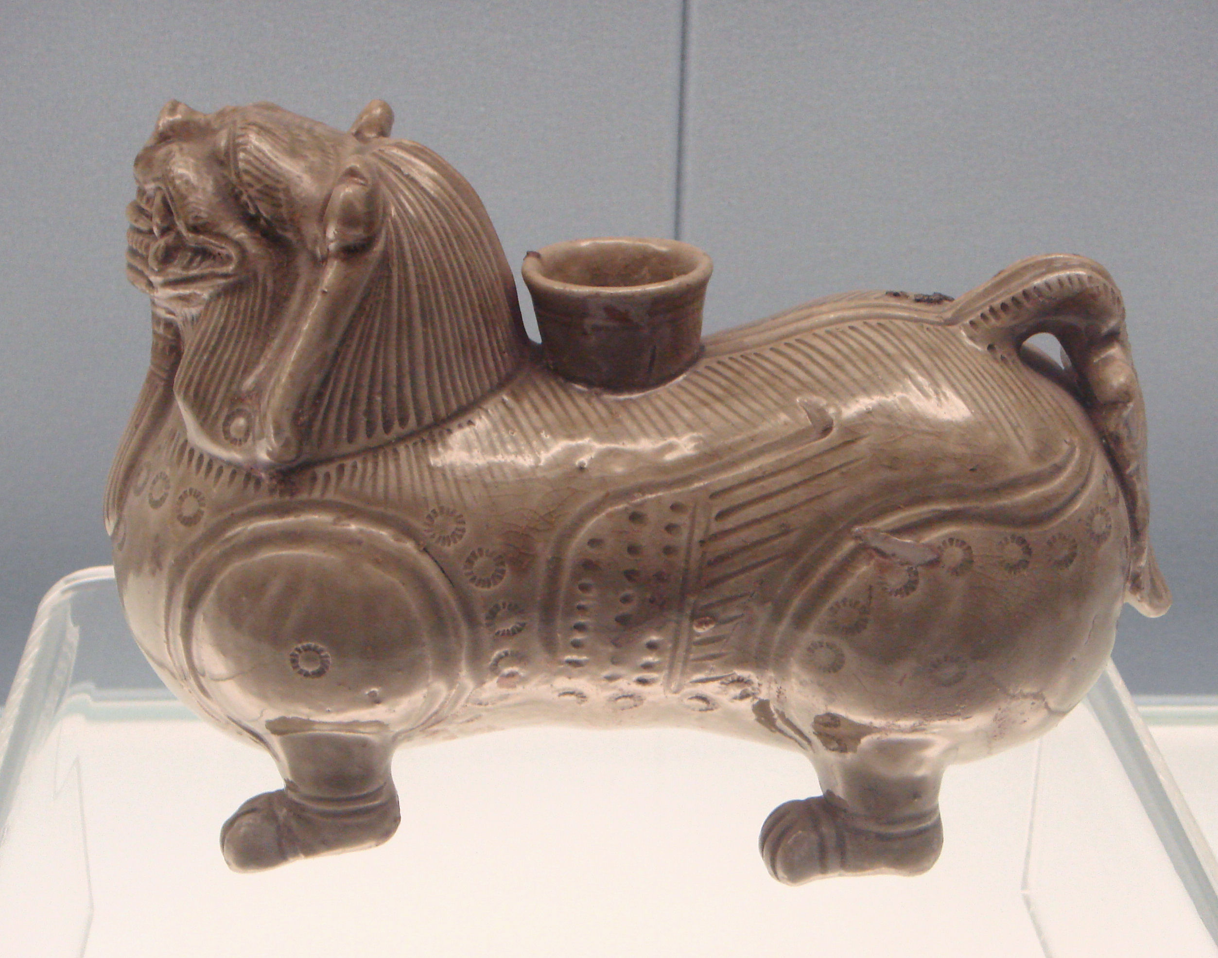 Celadon_lion_shaped_Bixie_Western_Jin_period_265_317CE.